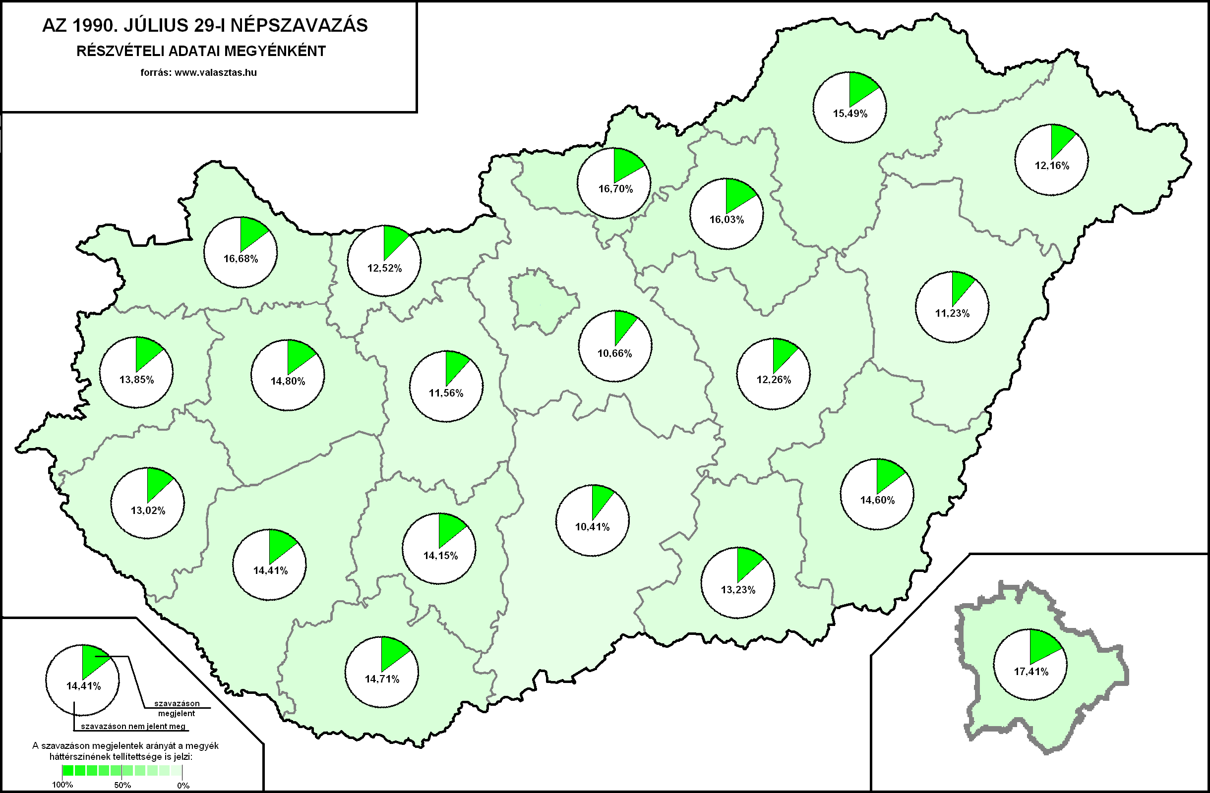 1990 Hungarian referendum, participation by county